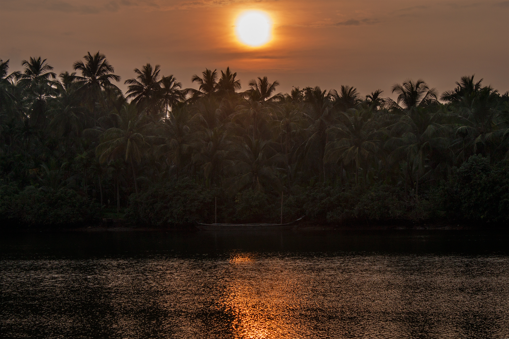 It is a river in the south Indian state of Kerala